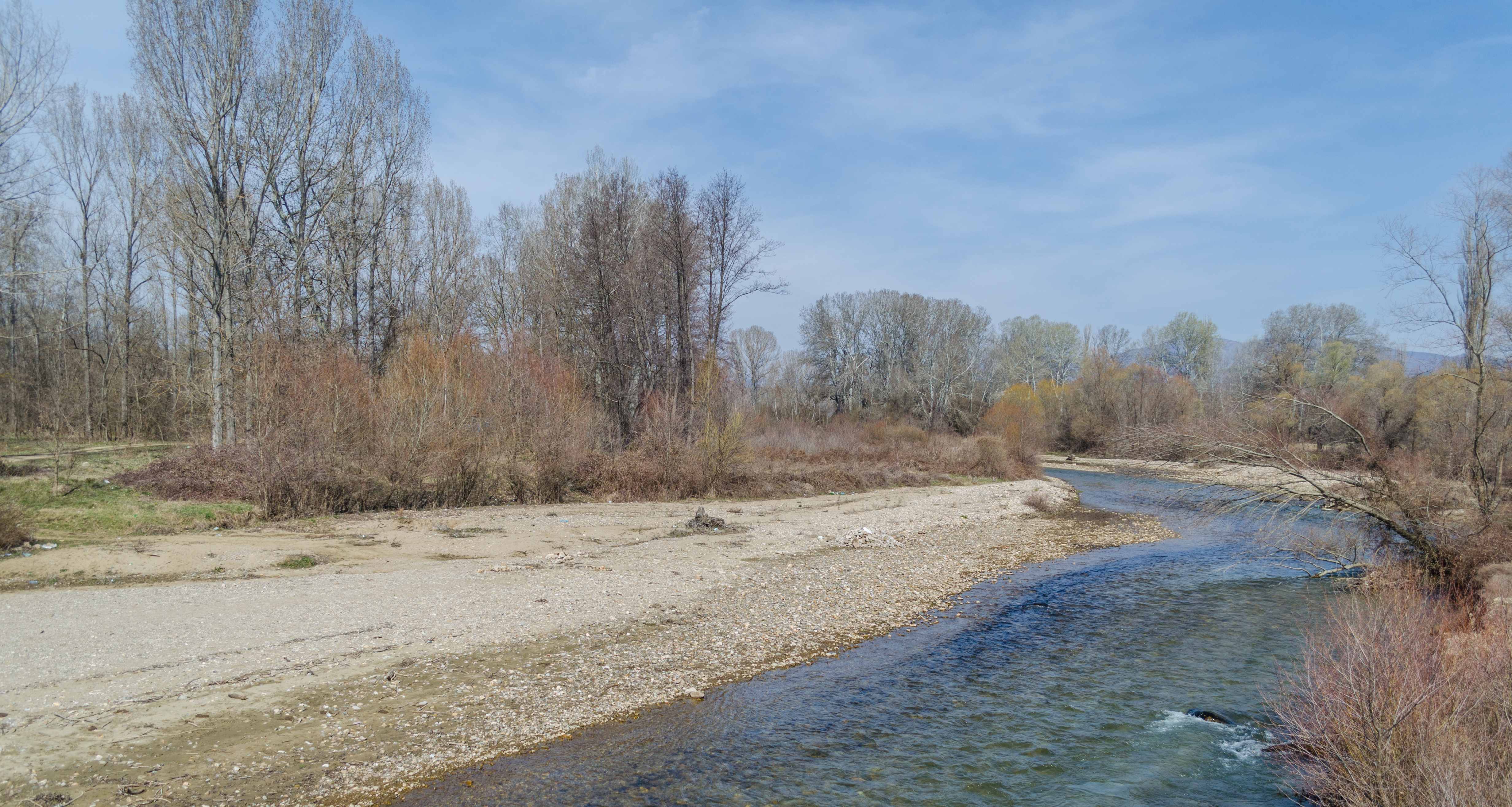 River Pčinja near Dragomance